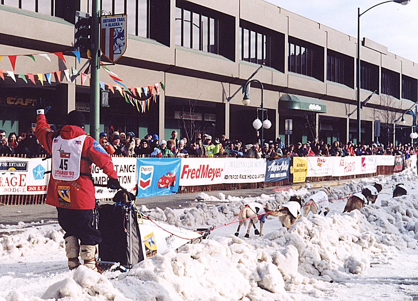 Musher Aliy Zirkle at the start of the 2003 Iditarod sled dog race - Aliy Zirkle traveling down 4th Avenue Anchorage